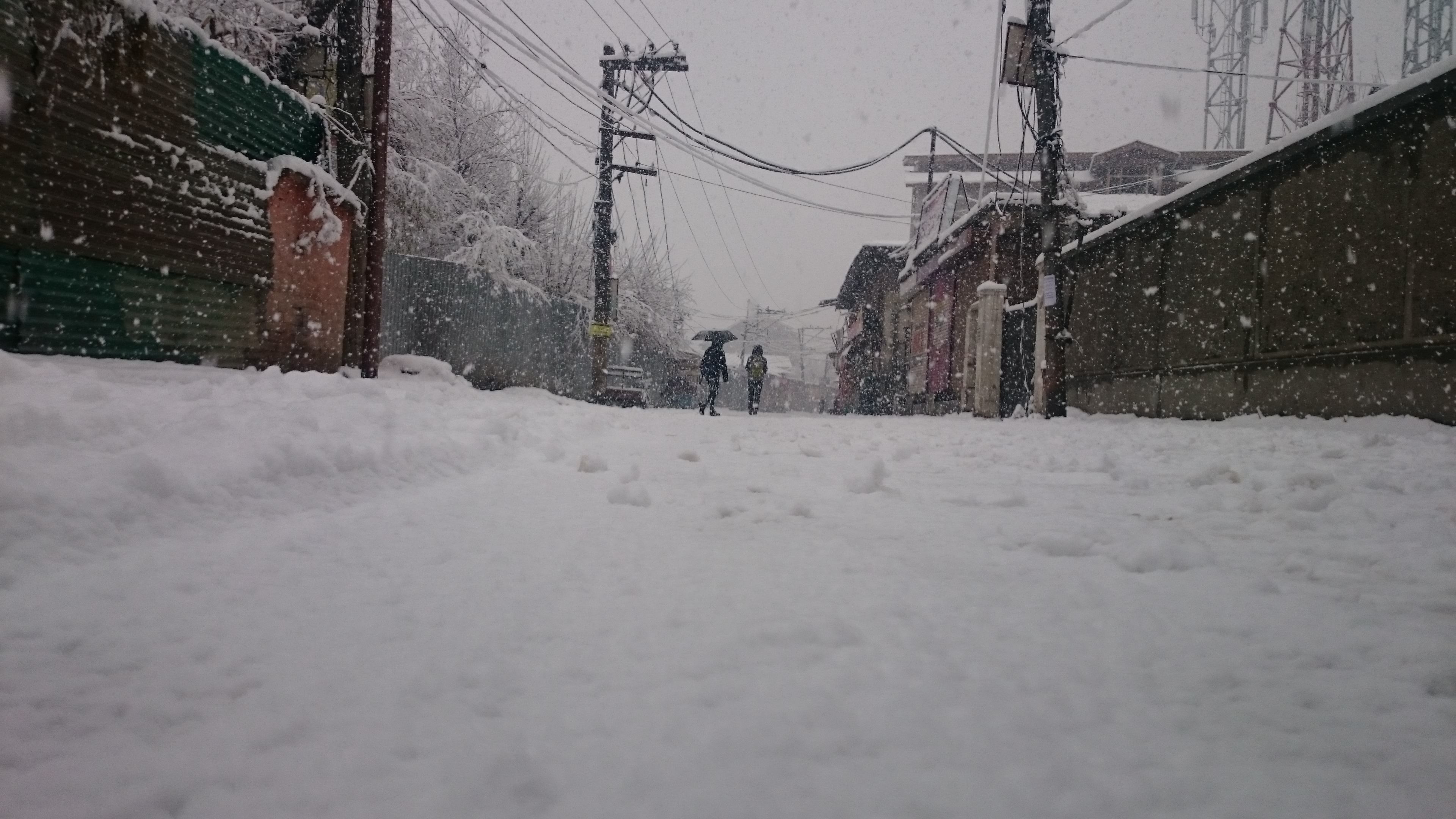 Snowing in Rajbagh.